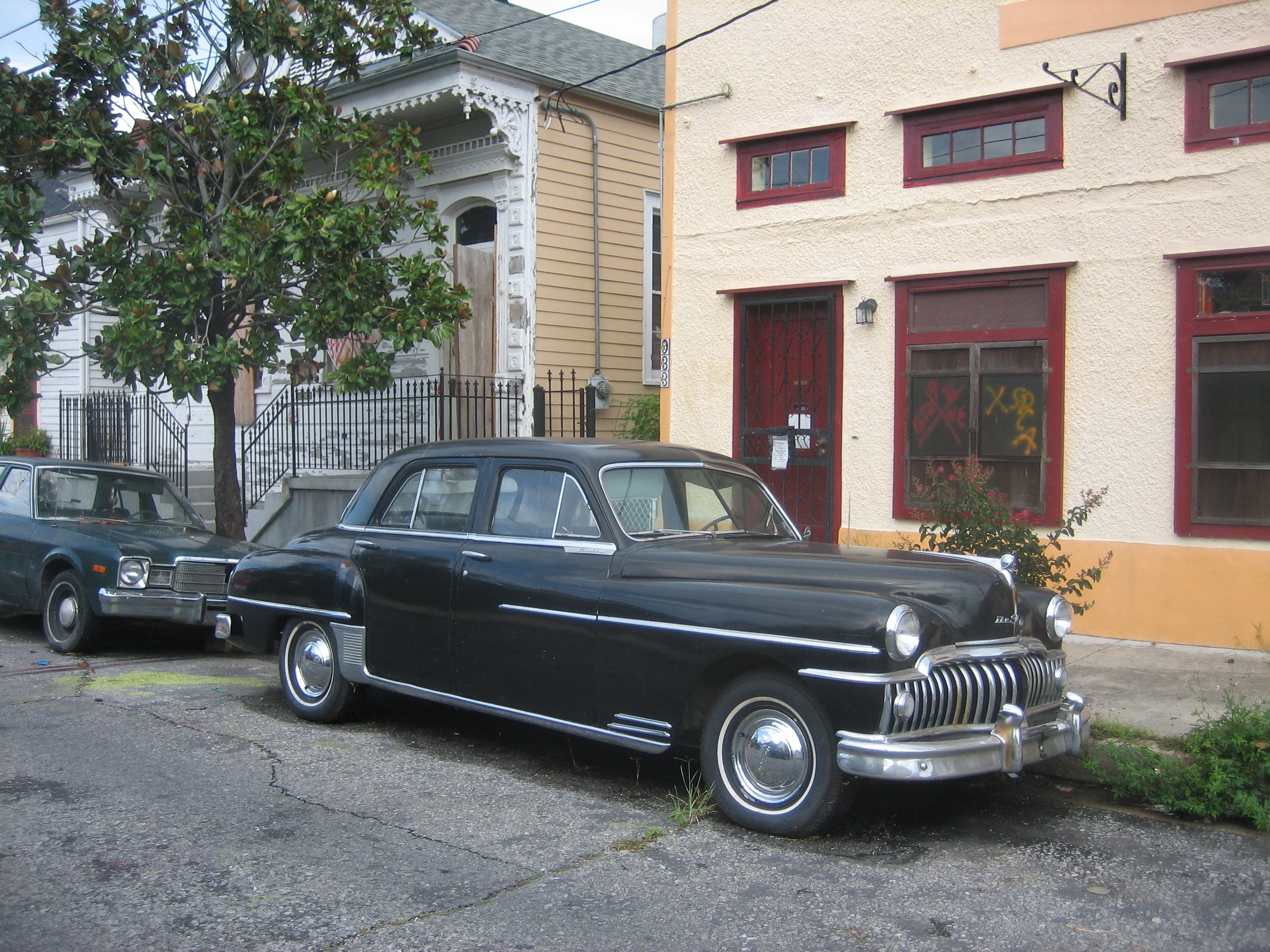 Old DeSoto Custom Series seen on street in Mid City neighborhood of New Orleans